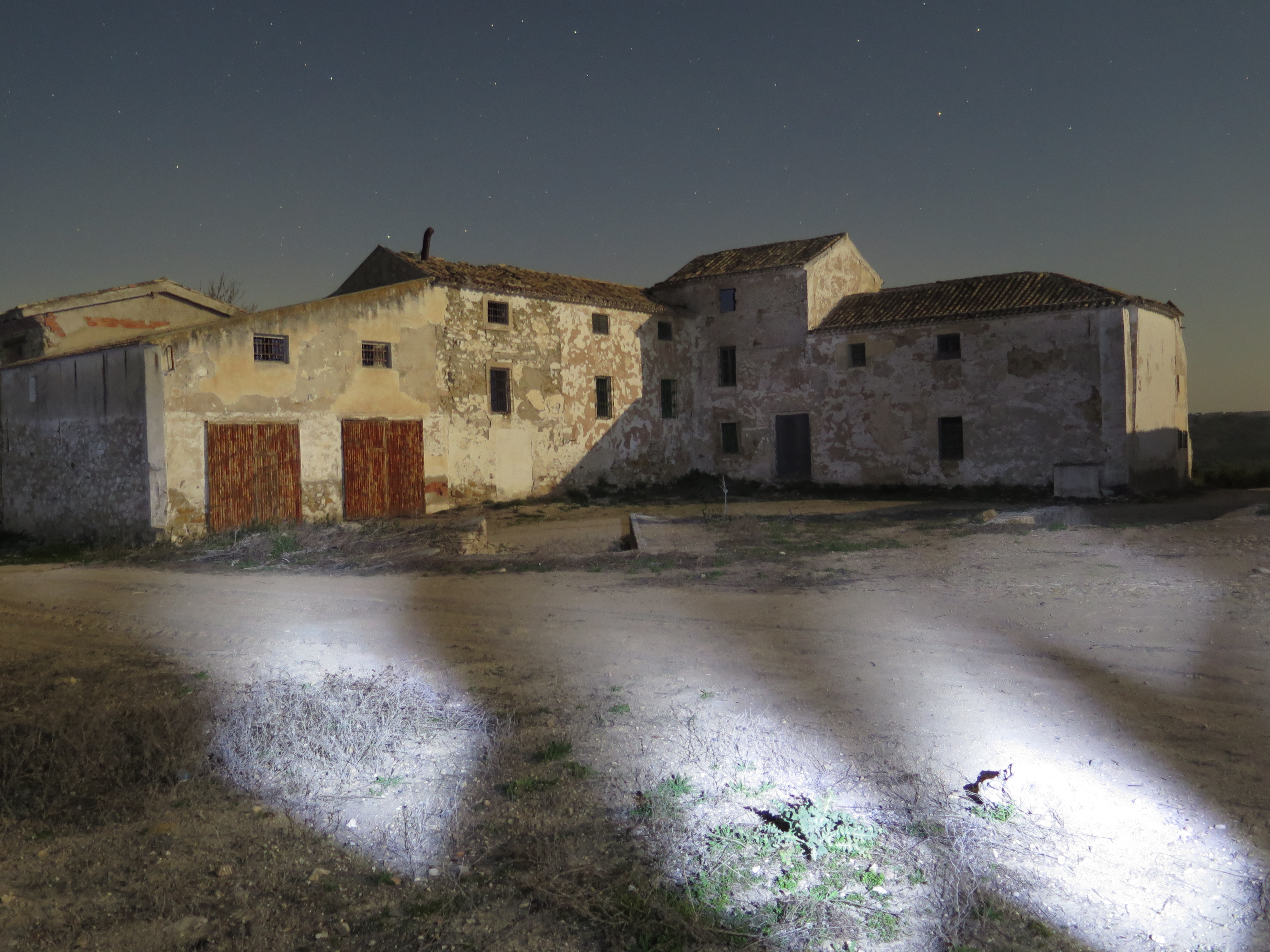 Plaza central de los cortijos segundos de Platero, término municipal de Jaén. Una noche de principios de primavera de 2016.